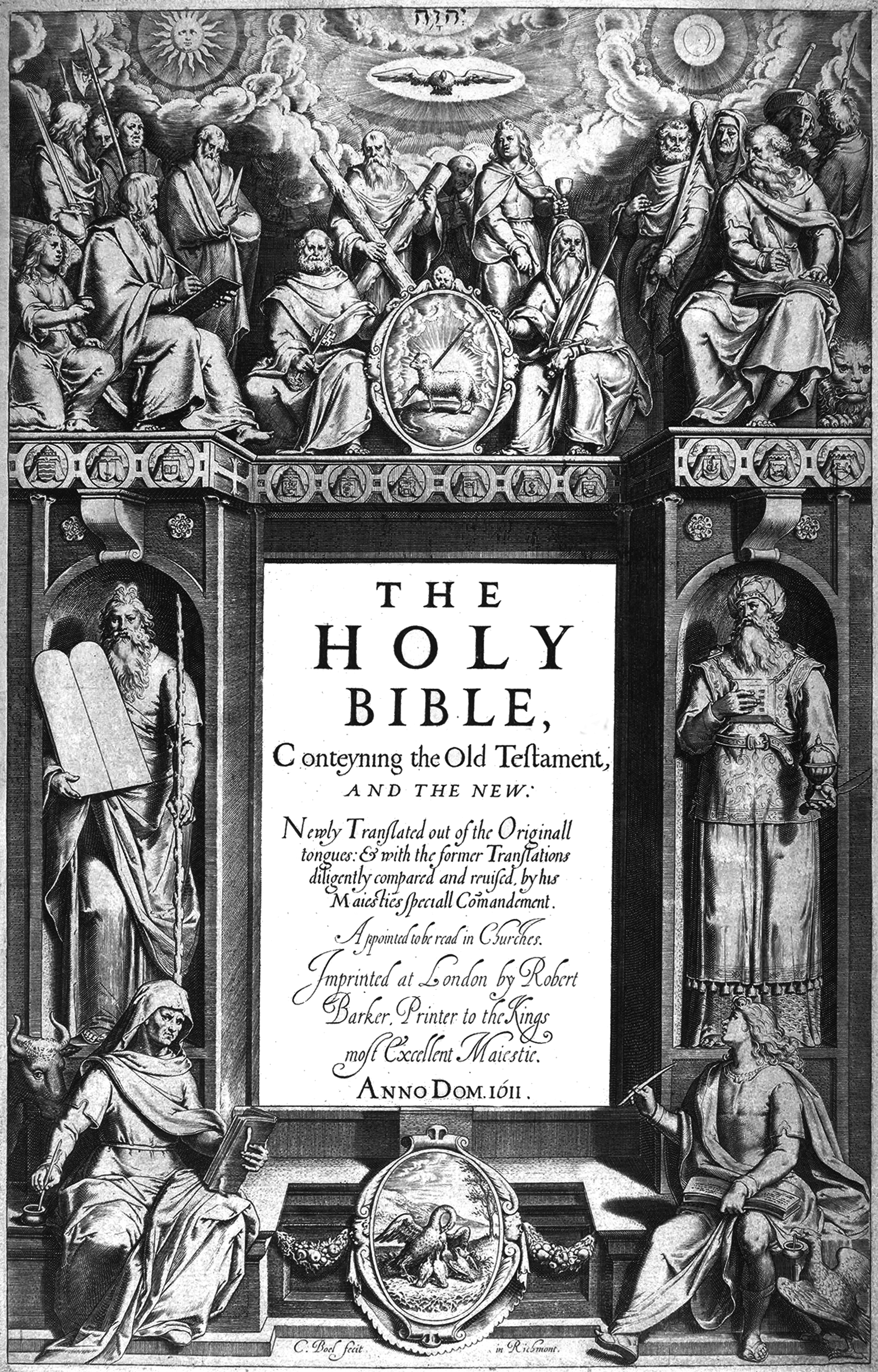 Frontispiece to the King James' Bible, 1611, shows the Twelve Apostles at the top. Moses and Aaron flank the central text. In the four corners sit Matthew, Mark, Luke, and John, authors of the four gospels, with their symbolic animals. At the top, over the Holy Spirit in a form of a dove, is the Tetragrammaton "יהוה" ("YHWH"). The title page text reads:THE HOLY BIBLE,Conteyning the Old Teſtament,AND THE NEW:Newly Tranſlated out of the Originall tongues: & with the former Tranſlations diligently compared and reuiſed, by his Maiesties speciall Comandement.Appointed to be read in Churches.Imprinted at London by Robert Barker, Printer to the Kings moſt Excellent Maiestie.ANNO DOM. 1611 . At bottom is "C. Boel ſecit in Richmont."